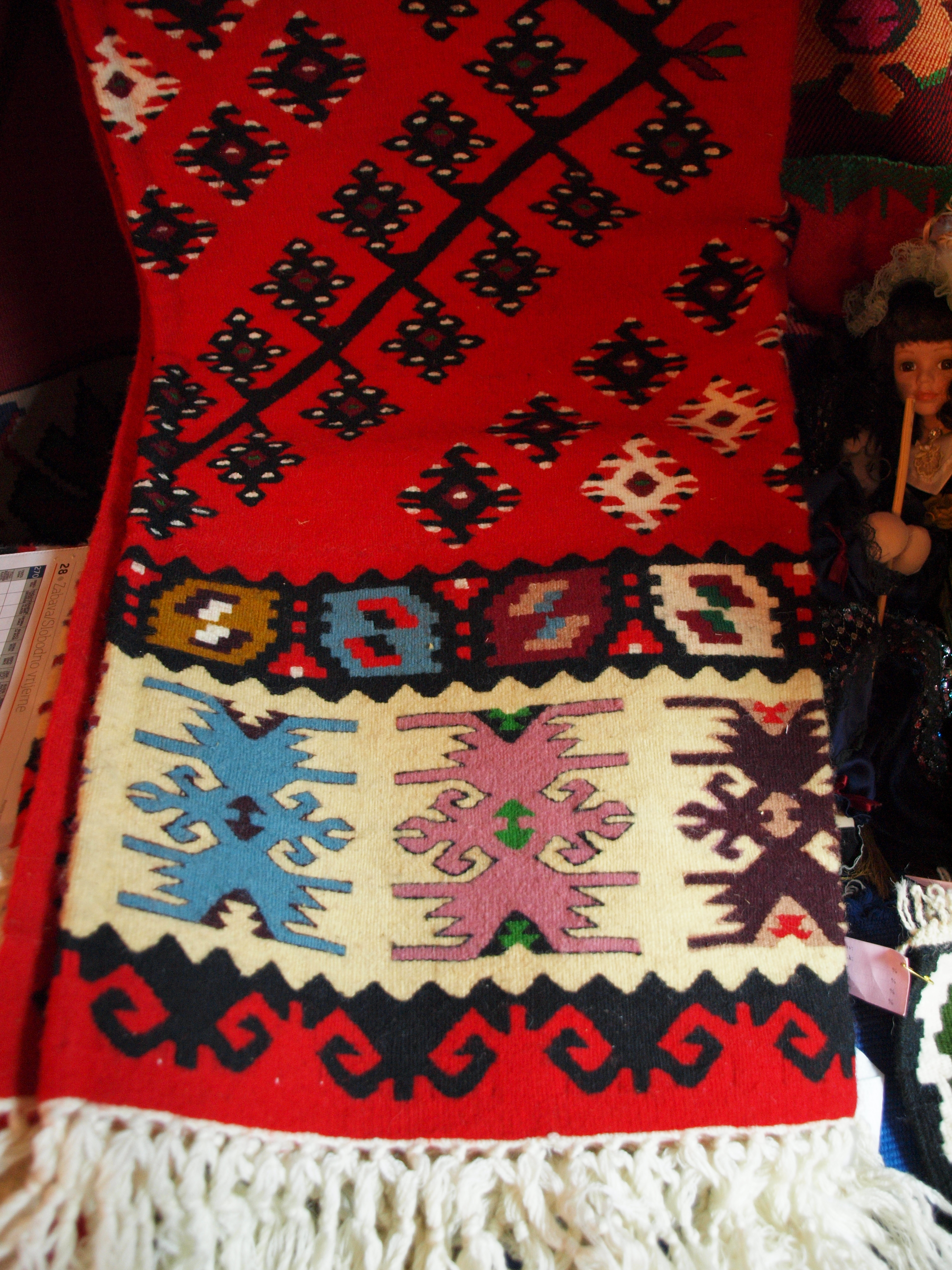 Pirotski Cilim Serbian traditinal carpet